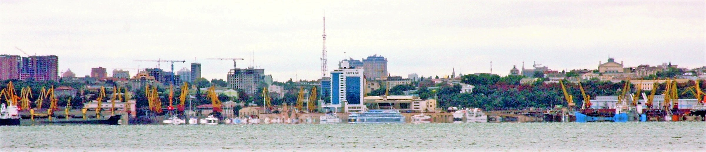 Panorama of Odessa (Ukraine) from the Black Sea